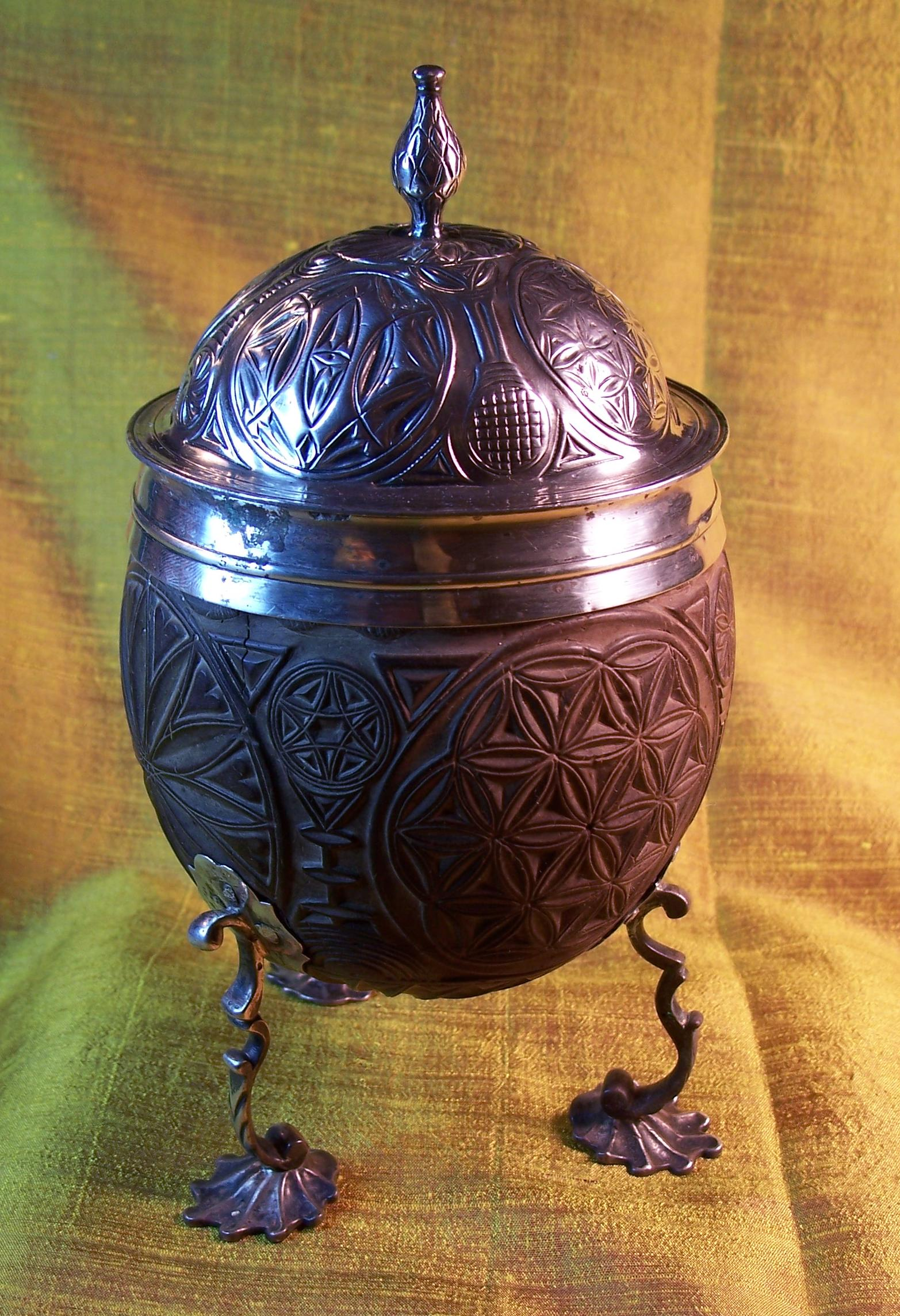 One of the three coconut cups that Captain Pearson had mounted in silver by Wakelin & Taylor in 1780, the year after his famous encounter with John Paul Jones. They were described as having "round silver beaded feet" in the company ledger which is held at the Victoria & Albert Museum in London. This cup presented by the Royal Assurance Company.